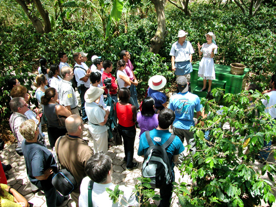 CoffeeTour at Cafe Britt Coffee Plantation.